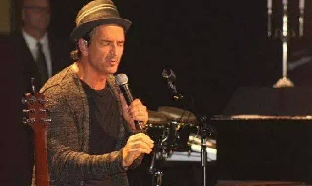 May 20. 2014 Ricardo Arjona’s private concert at the Mayan in downtown Los Angeles, California - USA on Tuesday, May 20, following successful shows in New York and Miami.